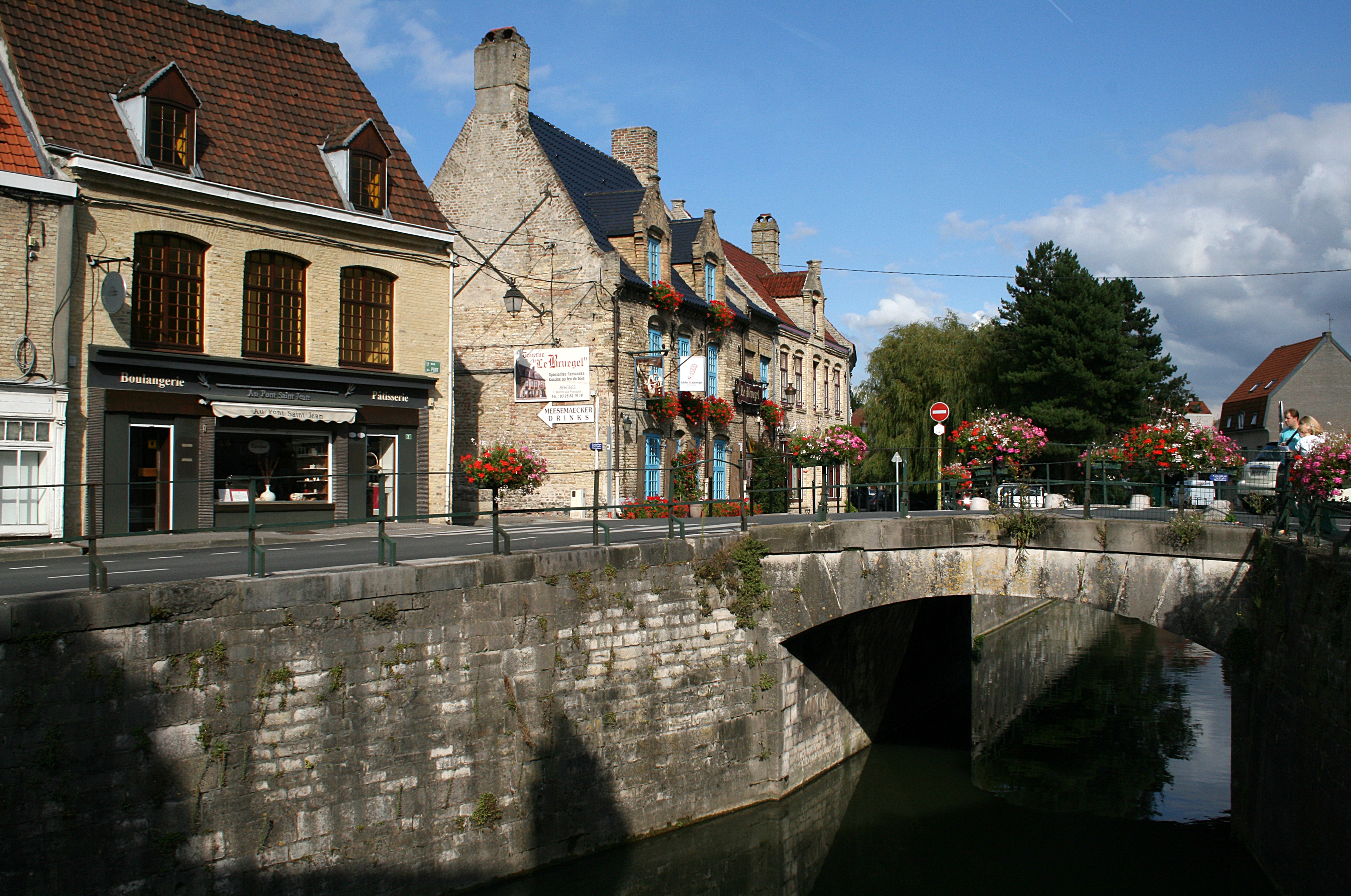 The Saint-Jean bridge over the Basse-Colme Canal in: Bergues (Nord department, France).